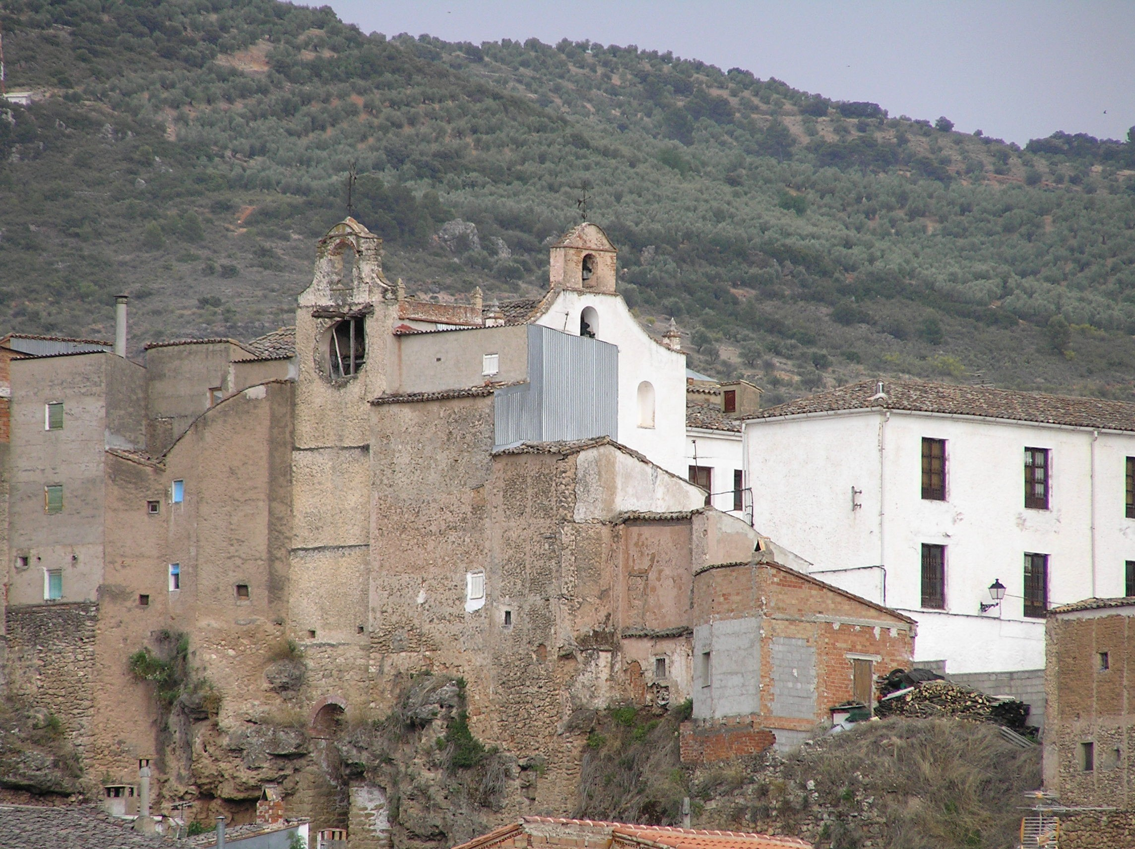 Restos de la antigua muralla